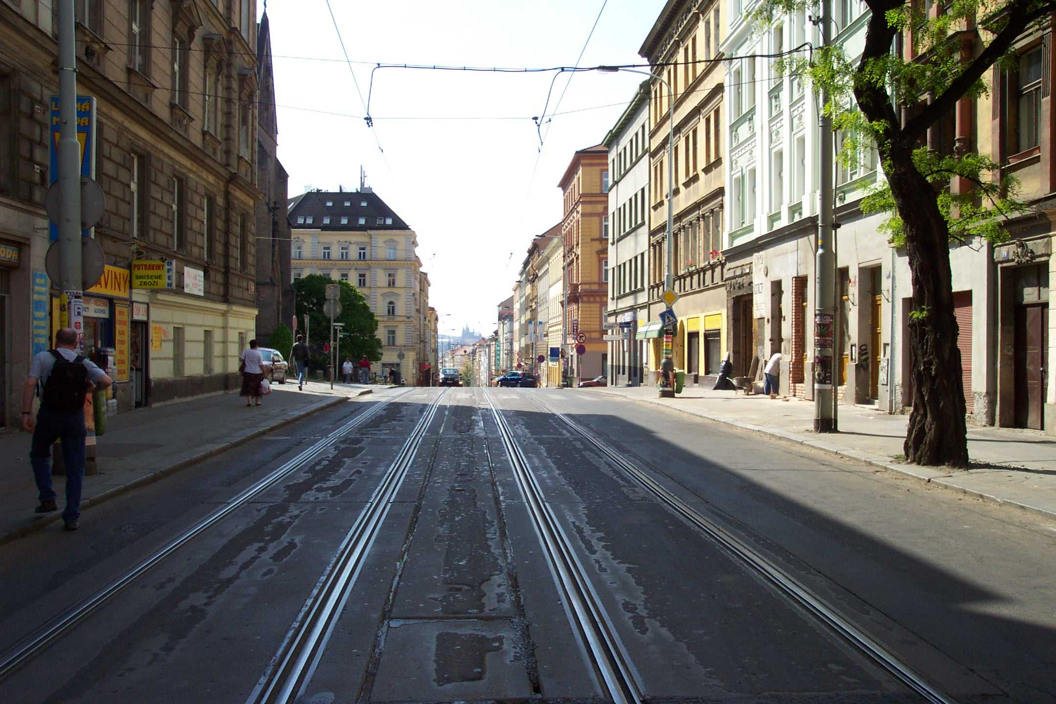 Žižkov, Seifertova avenue and the Prague castle